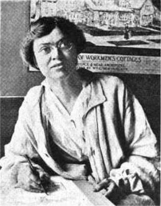 "The Woman Citizen" An architect who specializes on the housewife's needs and has just been elected to the American Institute of Architects (1879–1967)